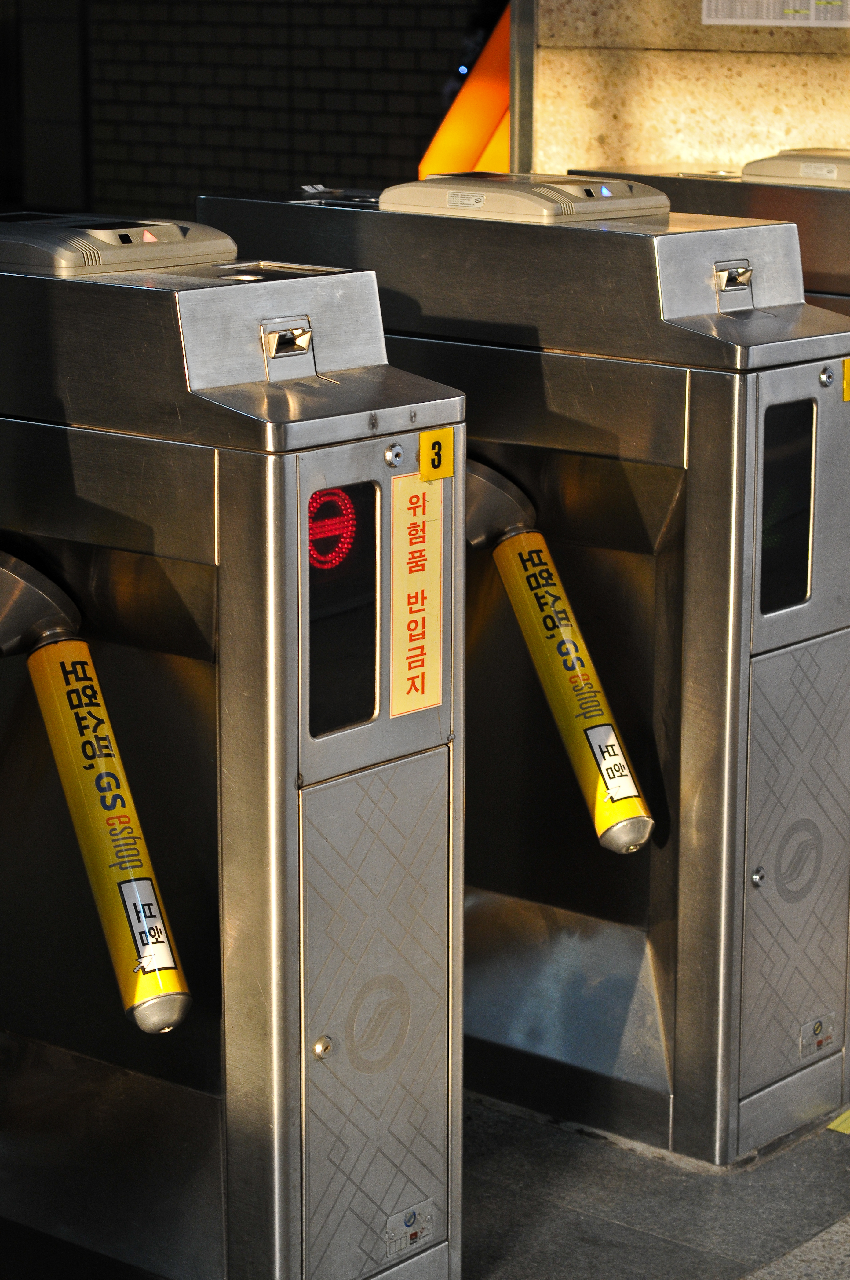 Ticket Gates at Seoungnae Metro Station, under Golden Sunshine.